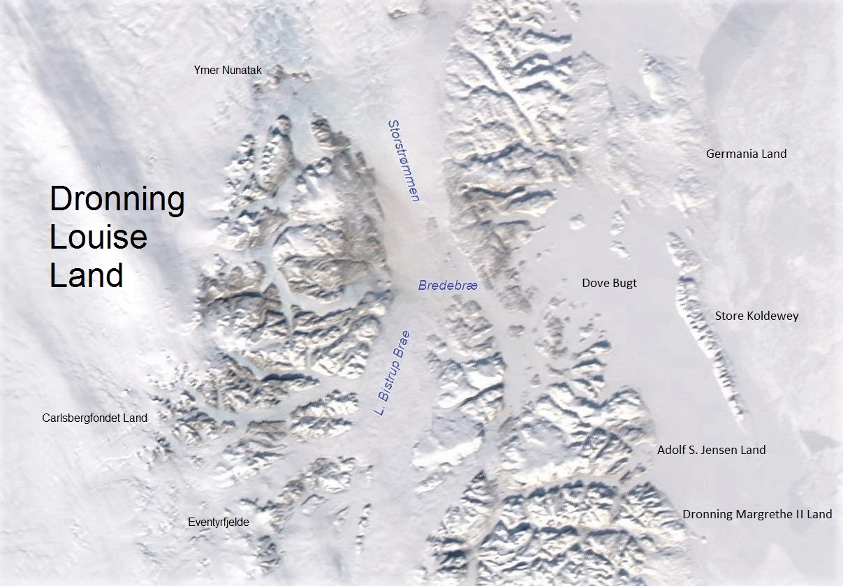 Dronning Louise Land and adjacent geographical features. NE Greenland.